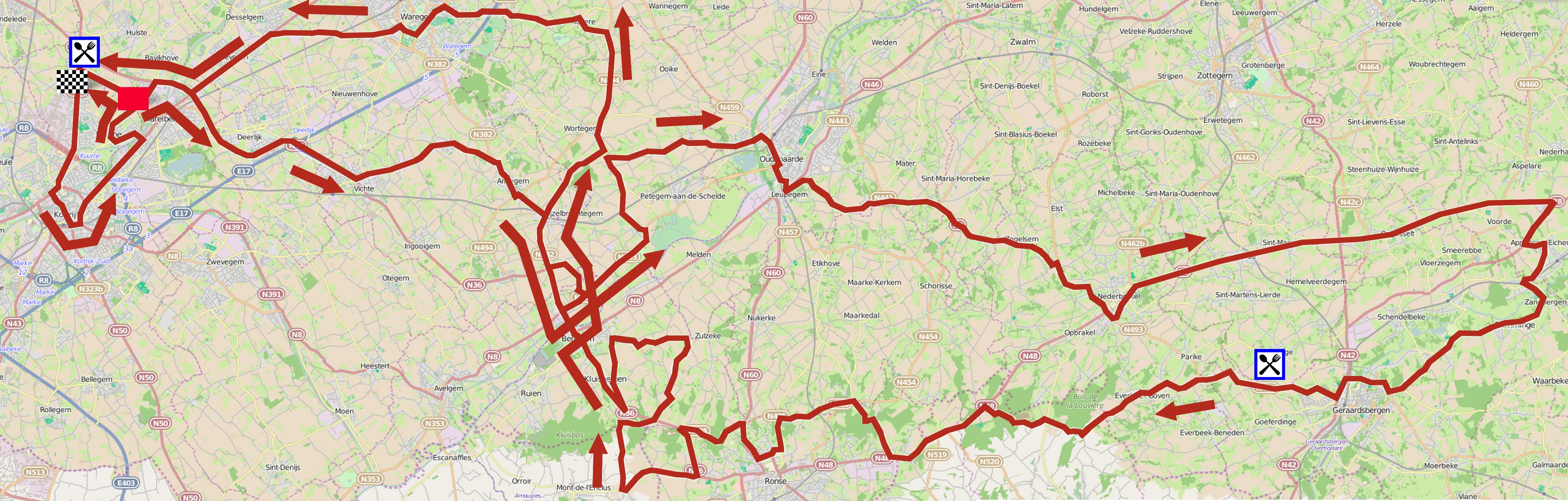 Parcours de Kuurne-Bruxelles-Kuurne 2015. This map may be incomplete, and may contain errors. Don't rely solely on it for navigation.